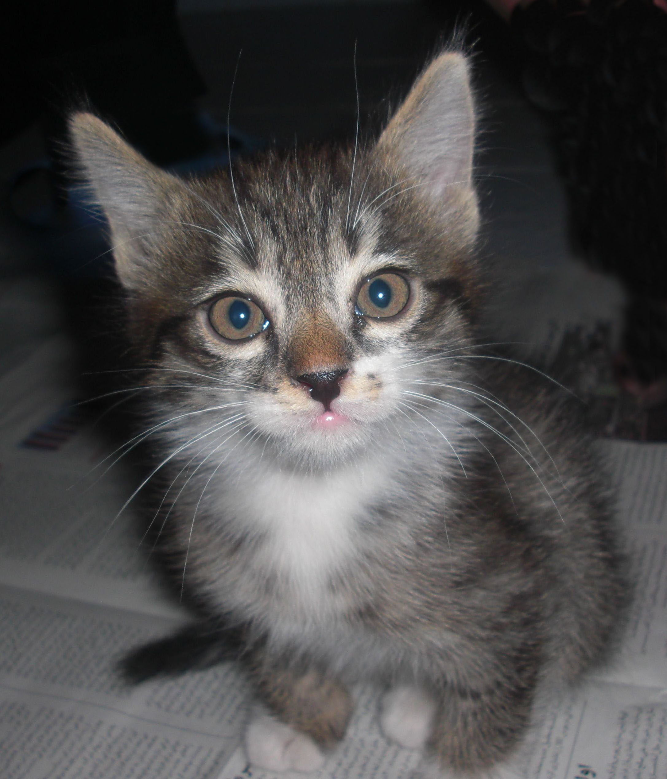 A kitten (young cat)